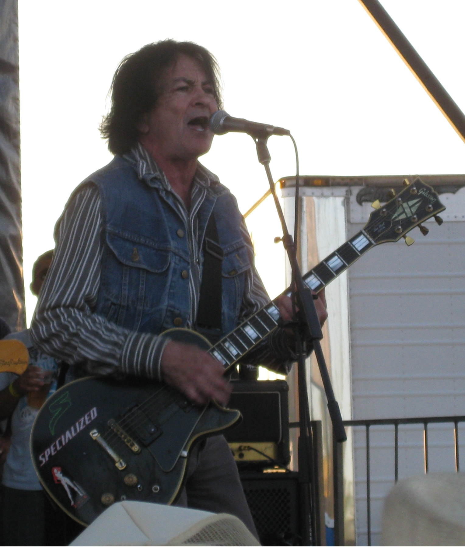 Lee Ving of Fear performing on the Warped Tour at the Cricket Wireless Amphitheatre in Chula Vista, California on August 10, 2010.